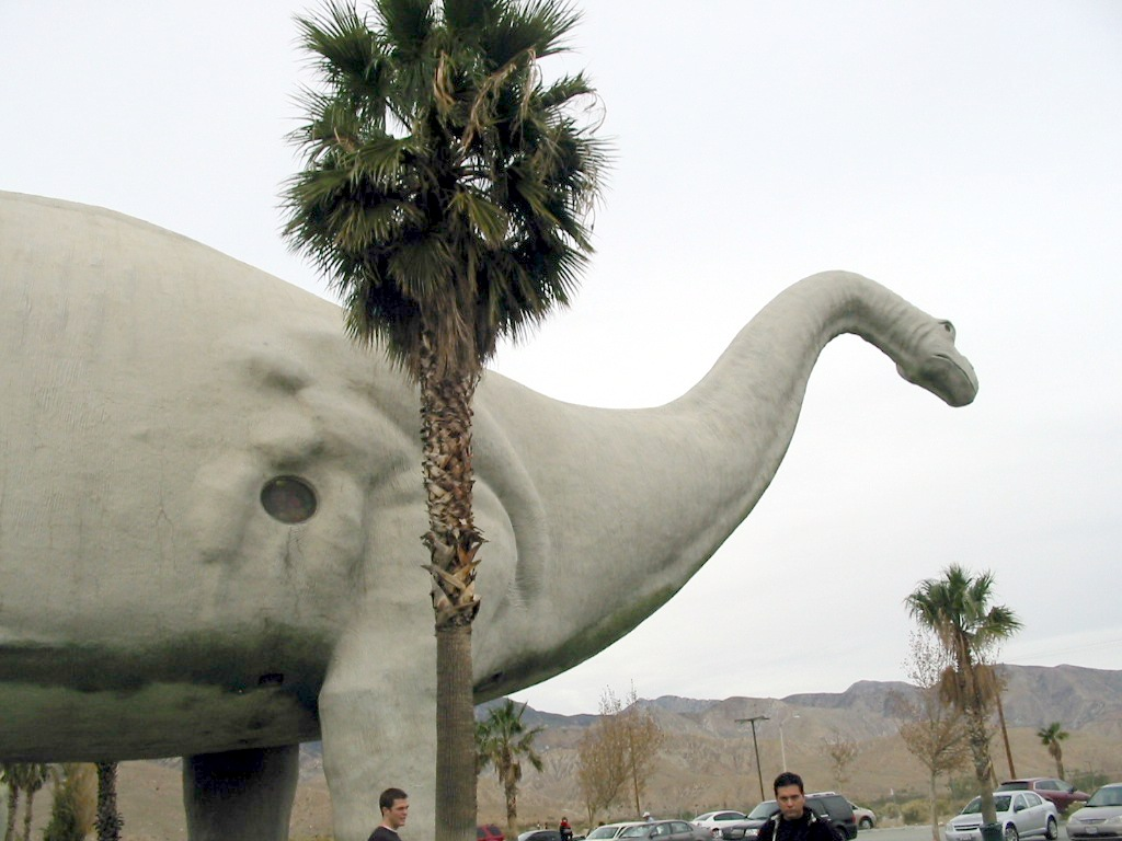 A photograph of a building shaped like a dinosaur, at Cabazon, California. An oval window is visible behind the right foreleg. Tourists can enter the building through a door in its tail and walk up stairs inside the tail to reach a souvenir shop in its belly. There are windows near three of the legs. A door near the left foreleg provides an emergency exit with external stairs to the ground.